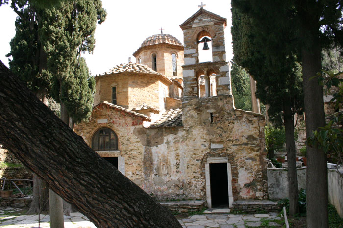 Kaisariani Monastery